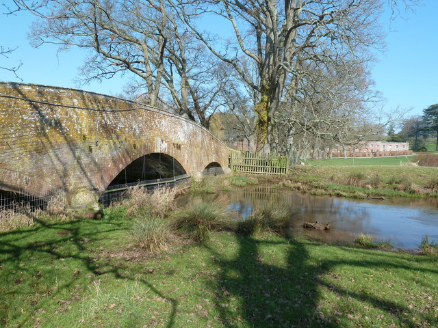 Bridge on the approach to Powderham Castle